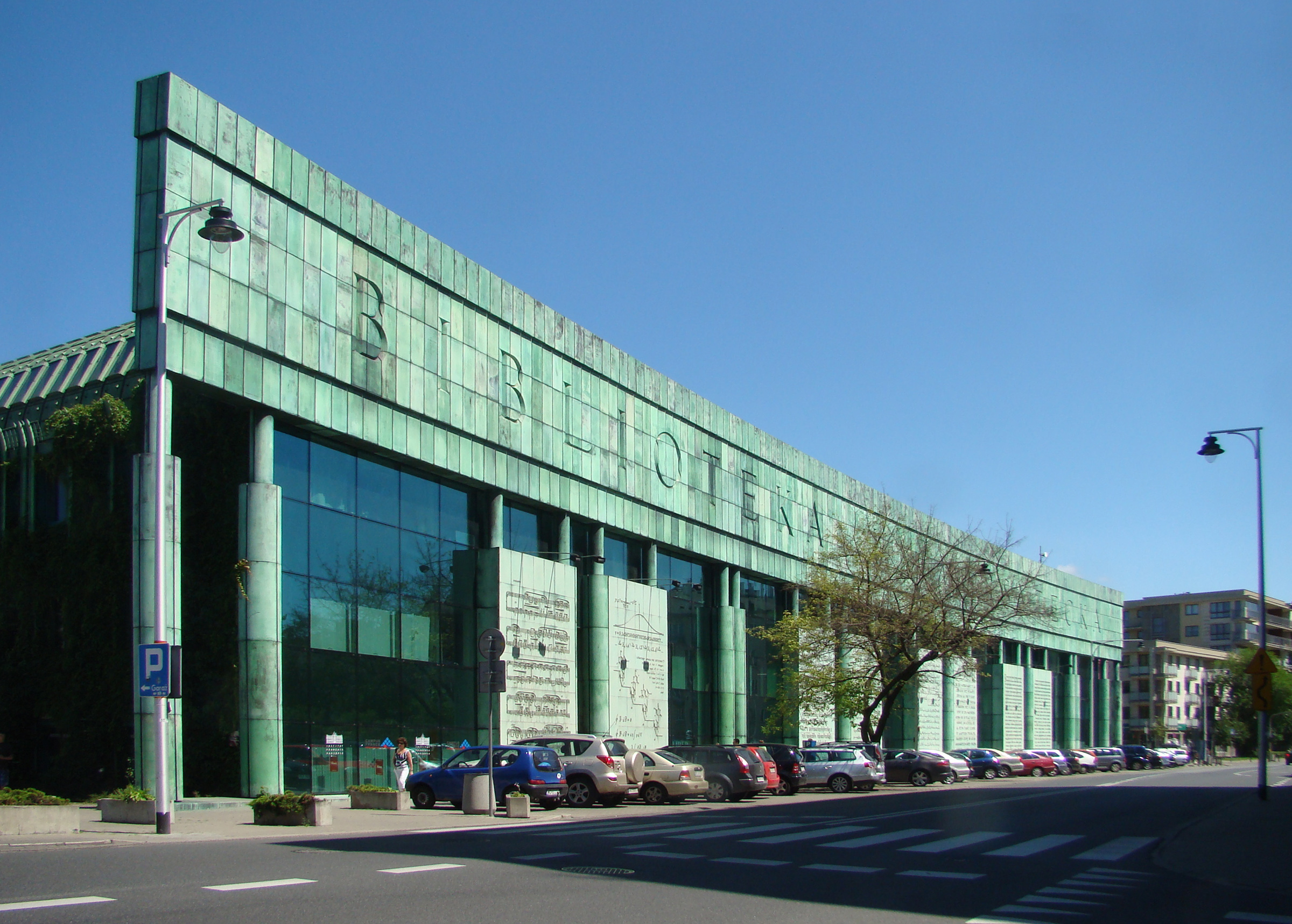 Warsaw University Library